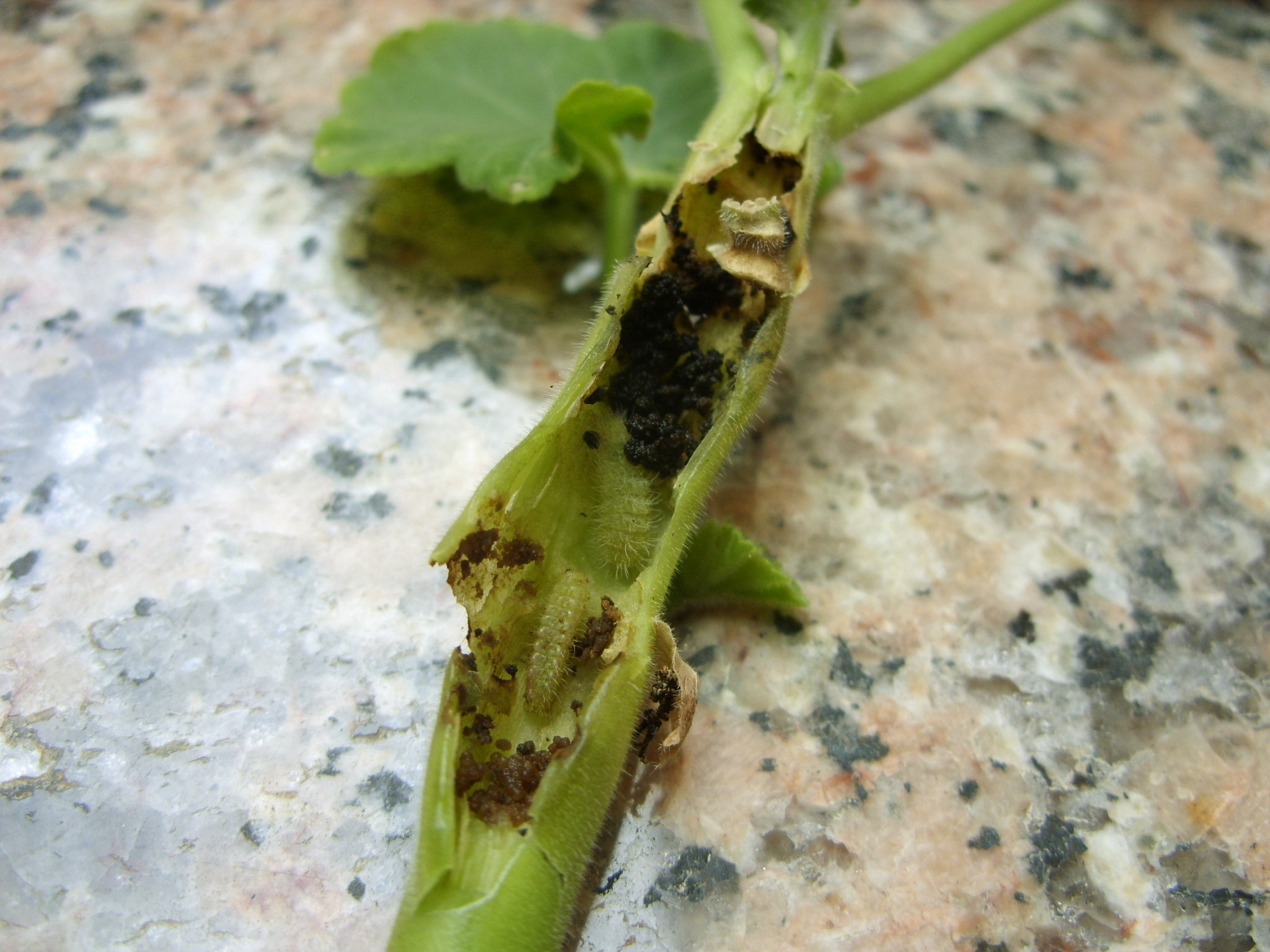 Two grubs of the species Cacyreus marshalli in the tunnel they dig in a geranium stem. Please note the severe damage they made to the victim plant